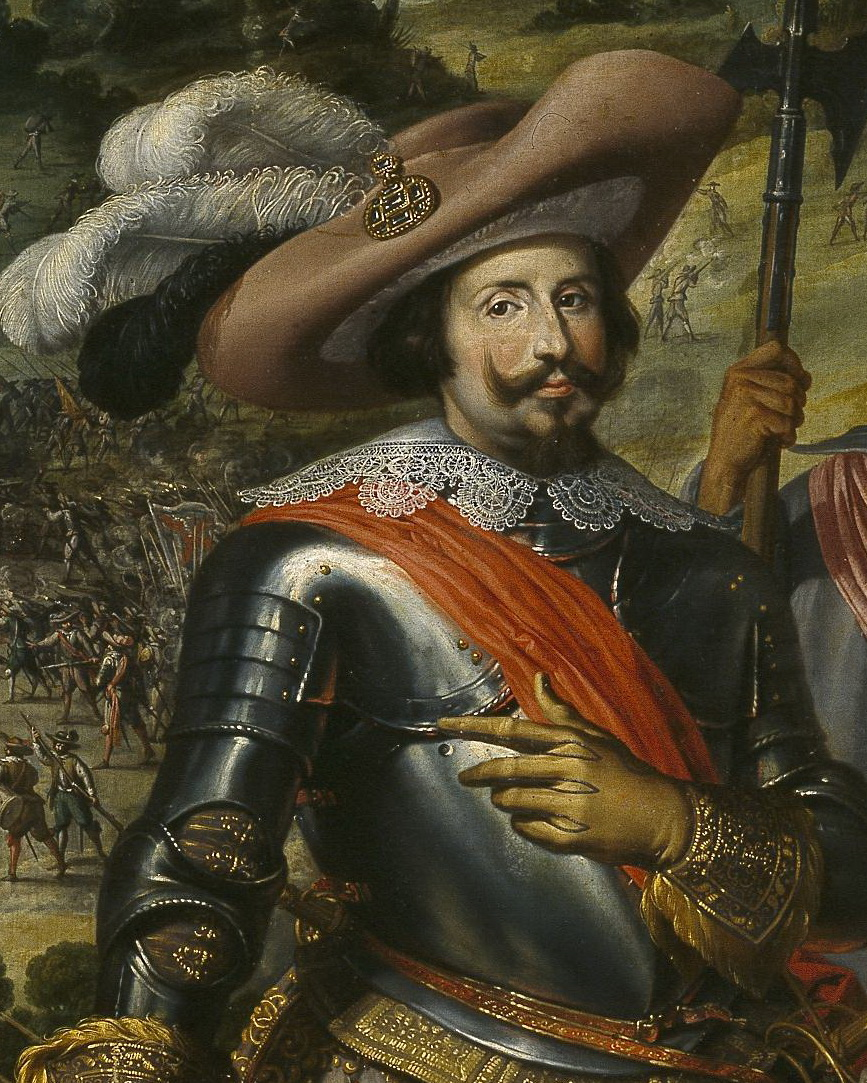 The spanish capture of Saint Kitts by Don Fadrique Álvarez de Toledo in 1629.